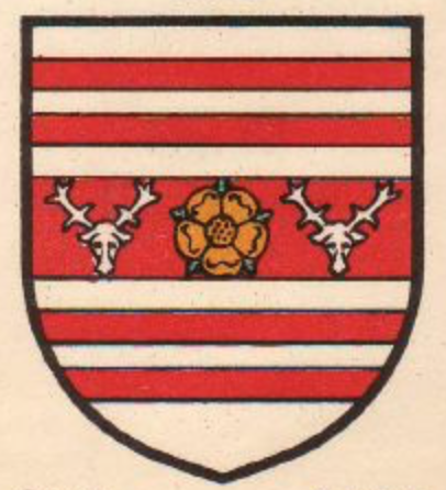 A version of the Eastbourne Coat of Arms, held by the Mayor's office of Eastbourne. Believed to be from 1925.